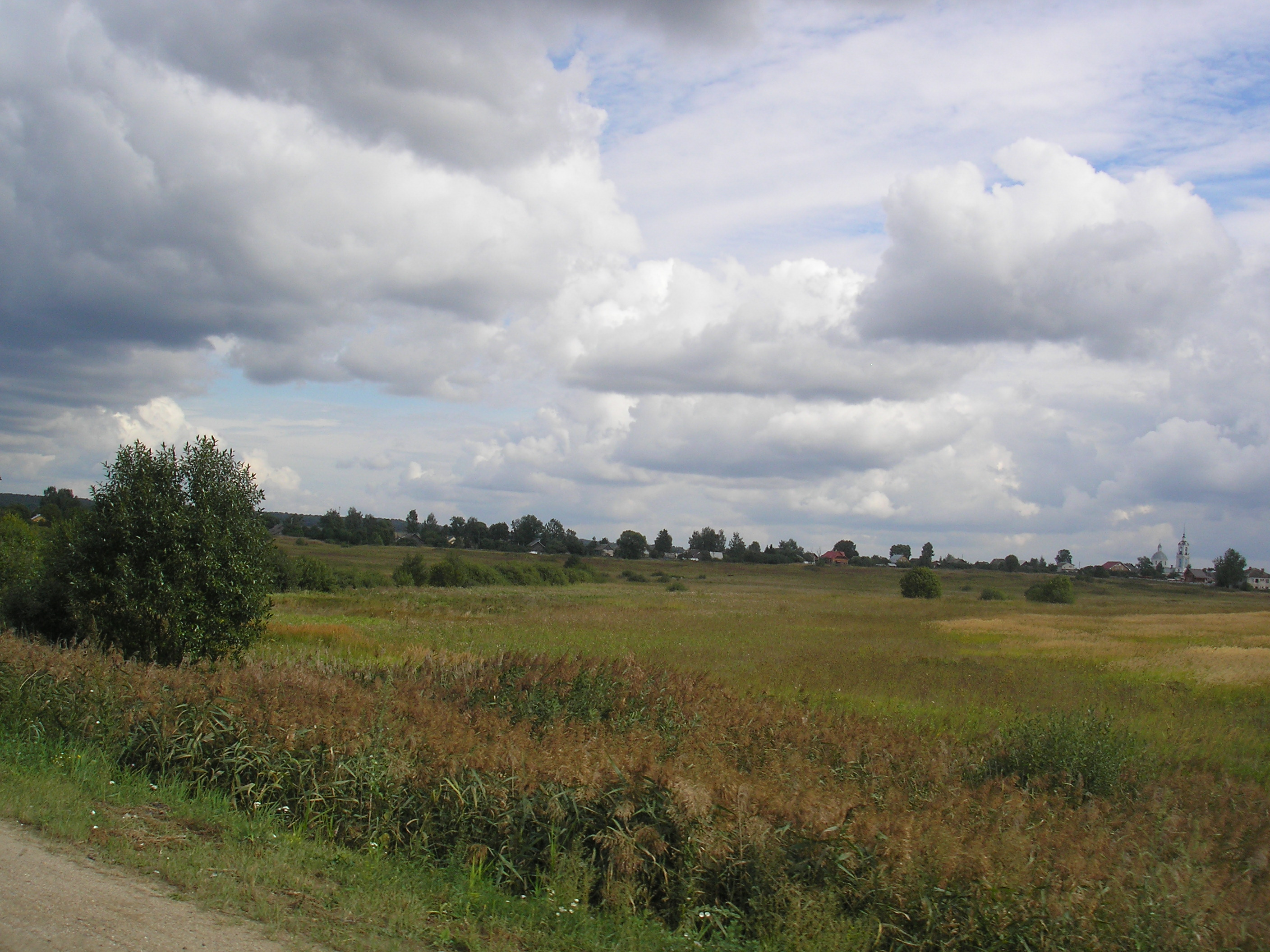 Village Krasnoe Pereslavsky District of Yaroslavl Oblast